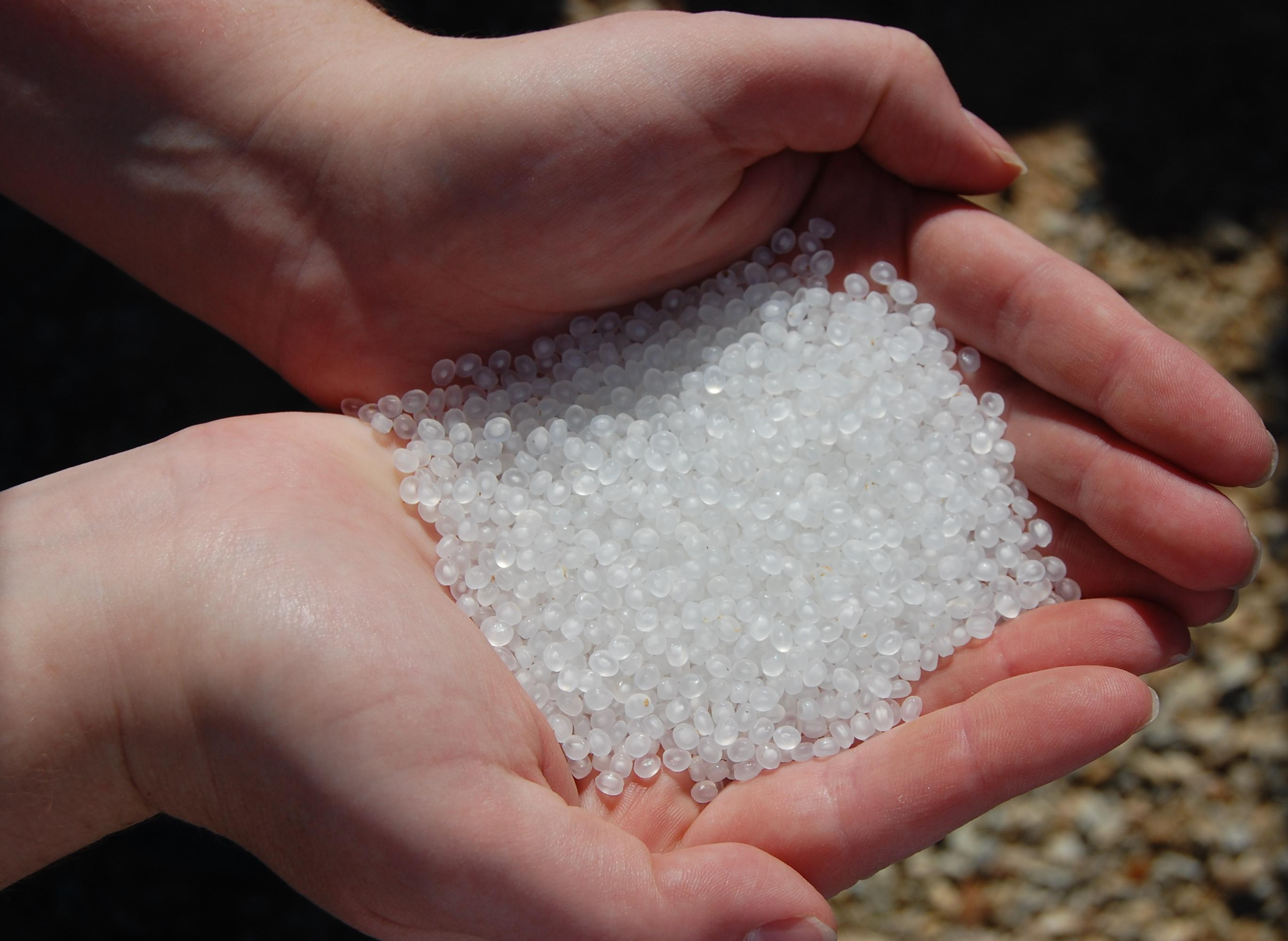 A smallish spill of plastic pellets from a hopper probably going to PlastiPak. Taken in Pineville, Louisiana.